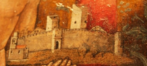 castle of Bastia, represented in 1498